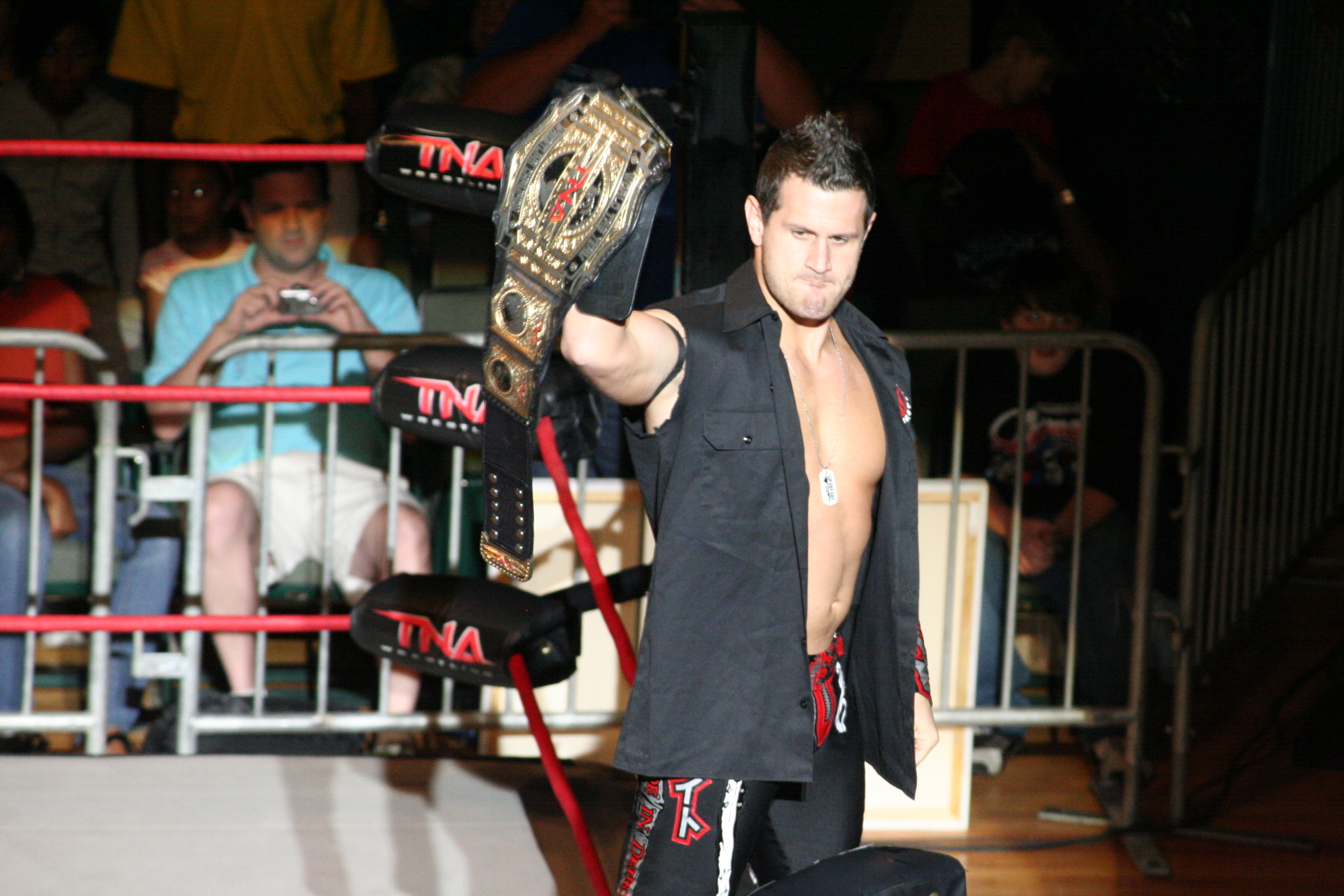 Professional wrestler Alex Shelley at a TNA live event